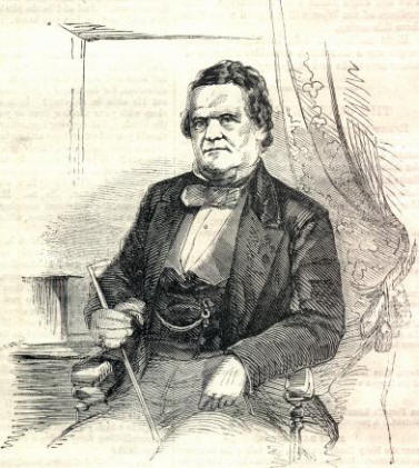 South Carolina Governor Francis Wilkinson Pickens